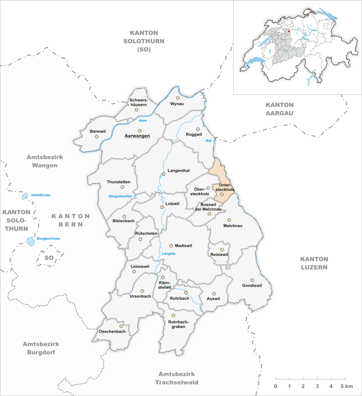 Municipality Untersteckholz